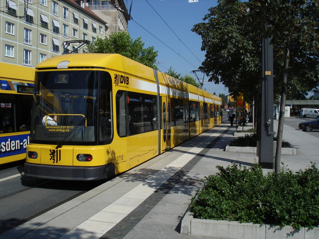 Tram in Dresden; August 29, 2005